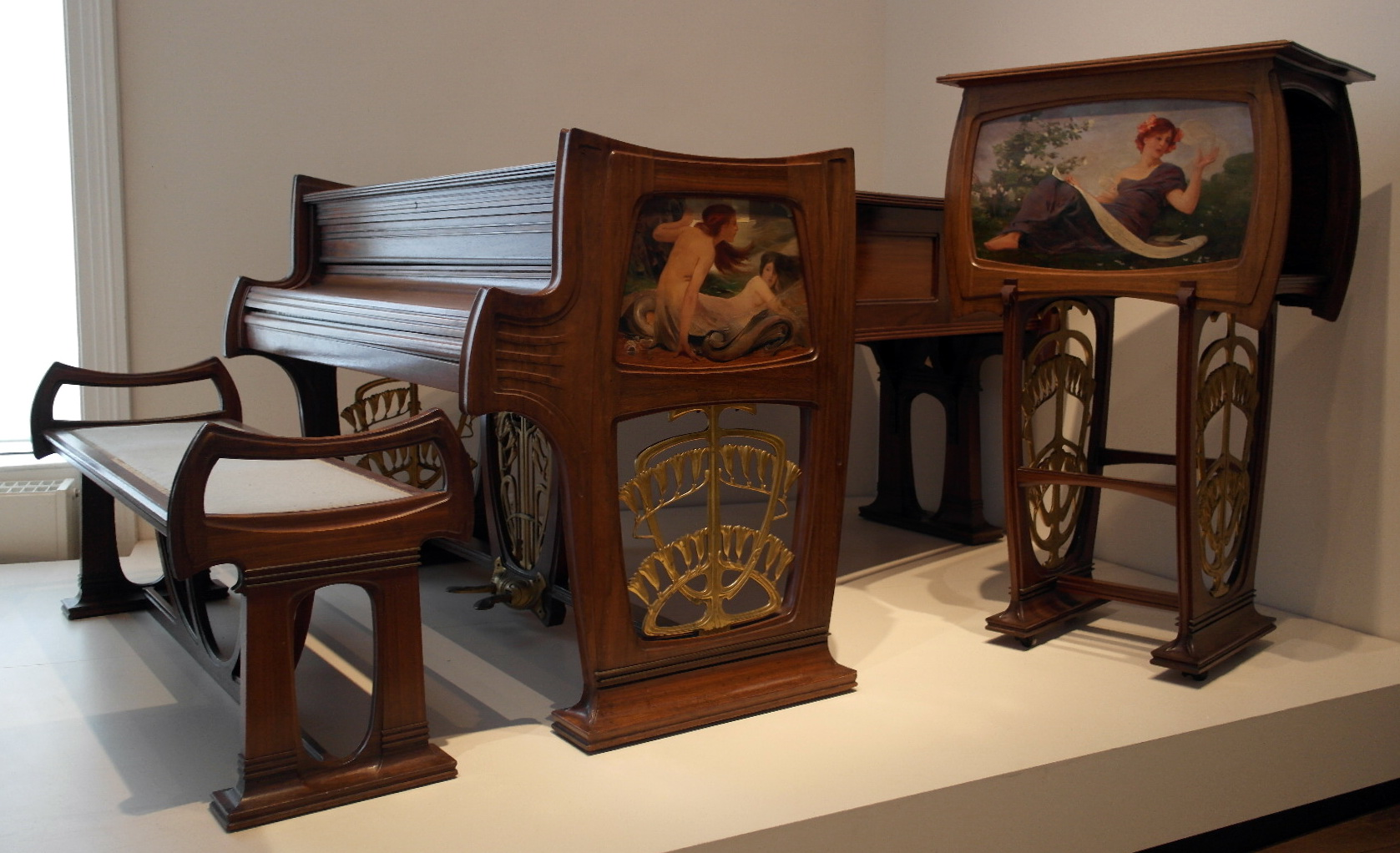 Liège, Belgium, Grand Curtius Museum. Art Nouveau piano (1902) and other furniture by Gustave Serrurier-Bovy (1858-1910), painted by Émile Berchmans.